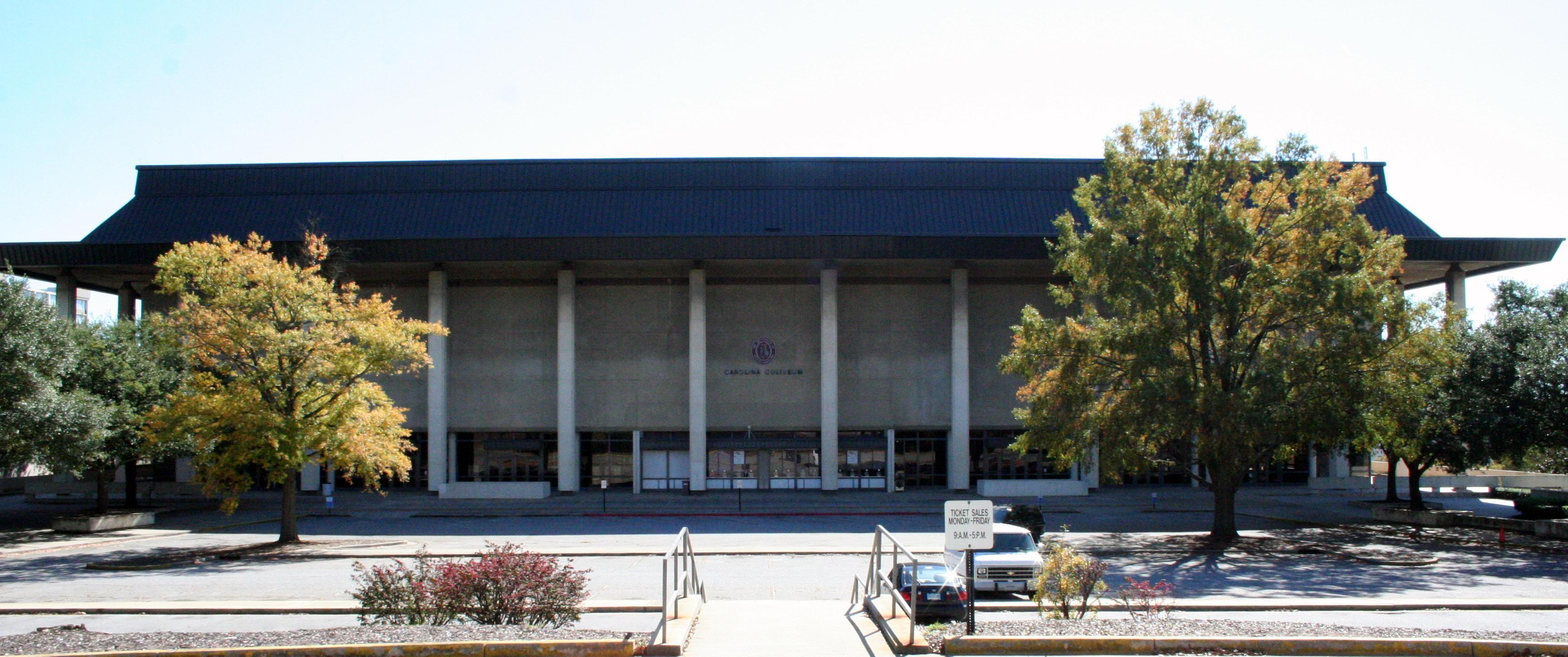 Carolina Coliseum Nov 3rd 2006. Photographer Brandon Davis